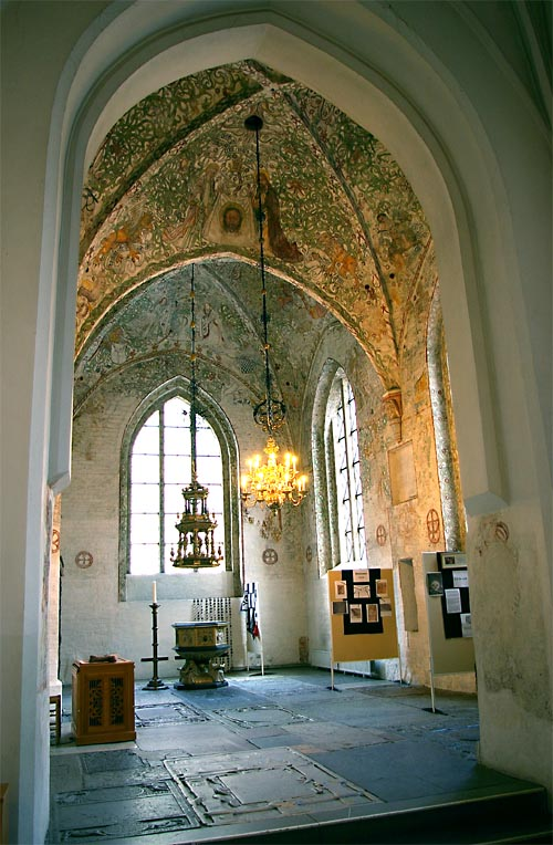 The Krämare chapel, just north of the 105-metre (344 ft) tall tower in Sankt Petri kyrka ("Church of Saint Peter") in Malmö, Sweden.